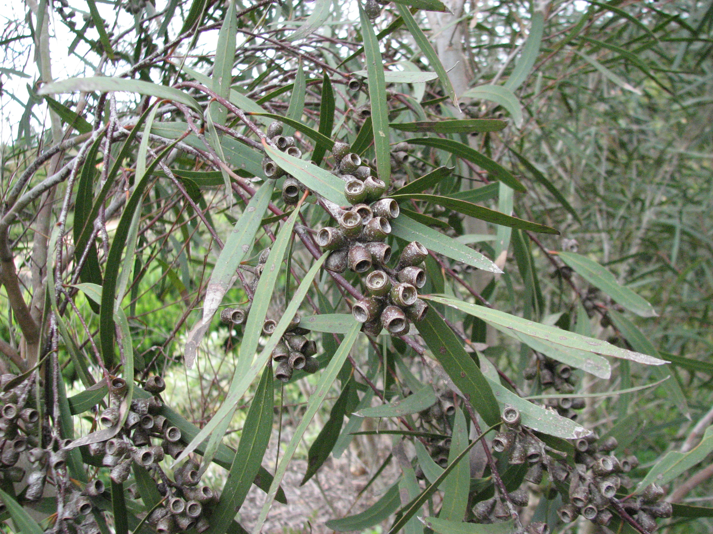 Eucalyptus viridis (cultivated labelled) Royal Botanic Gardens Cranbourne, Victoria, Australia